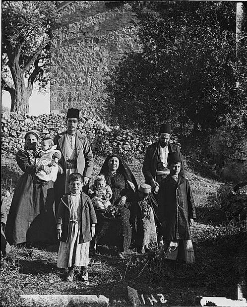 Ashkenazim Jews residing in the "American colony" (exact date of photo unknown, but taken between 1900 and 1920)